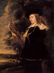 A Young Man with a Falcon